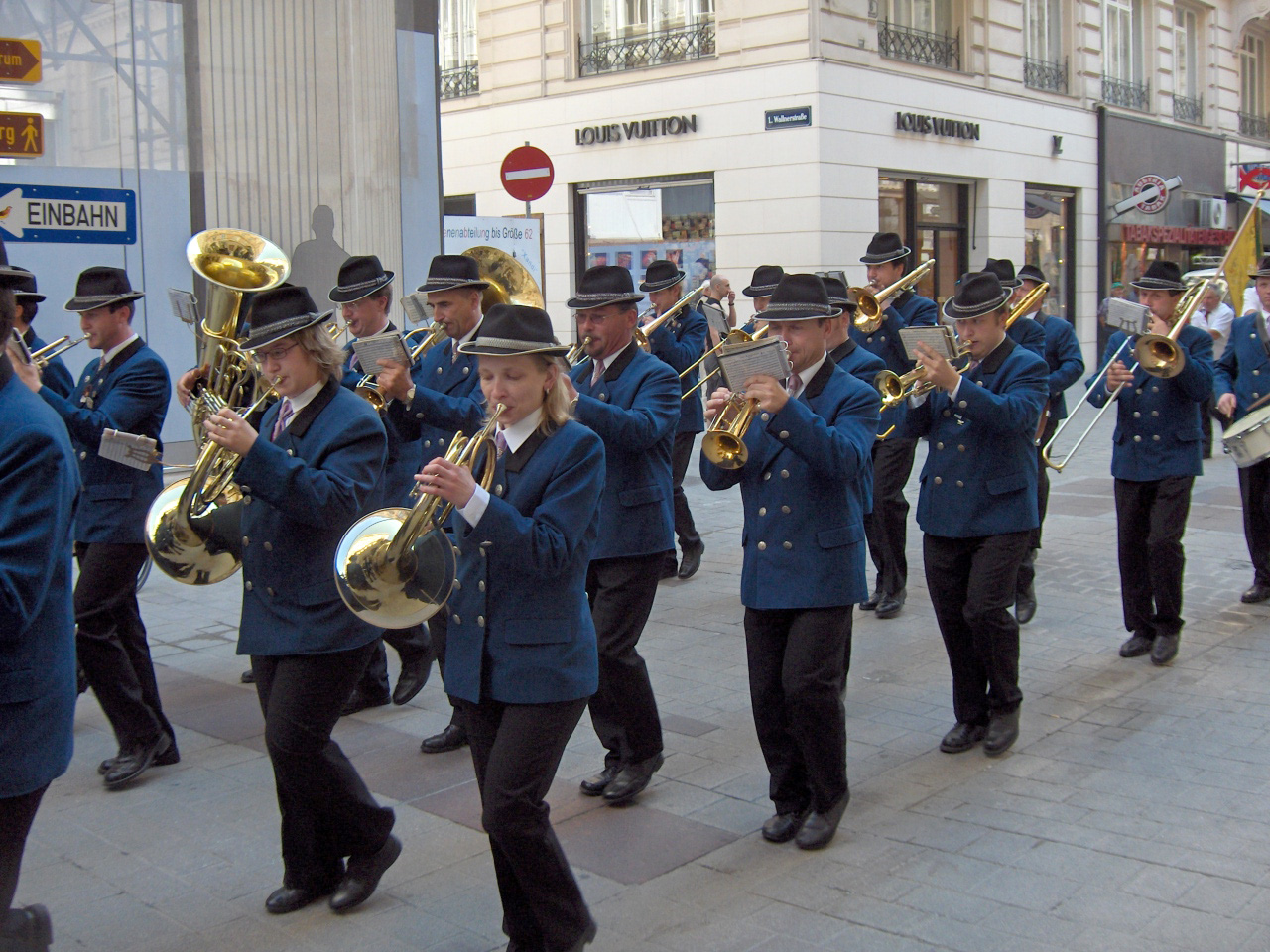 Marching band parading in the streets of Vienna, Austria